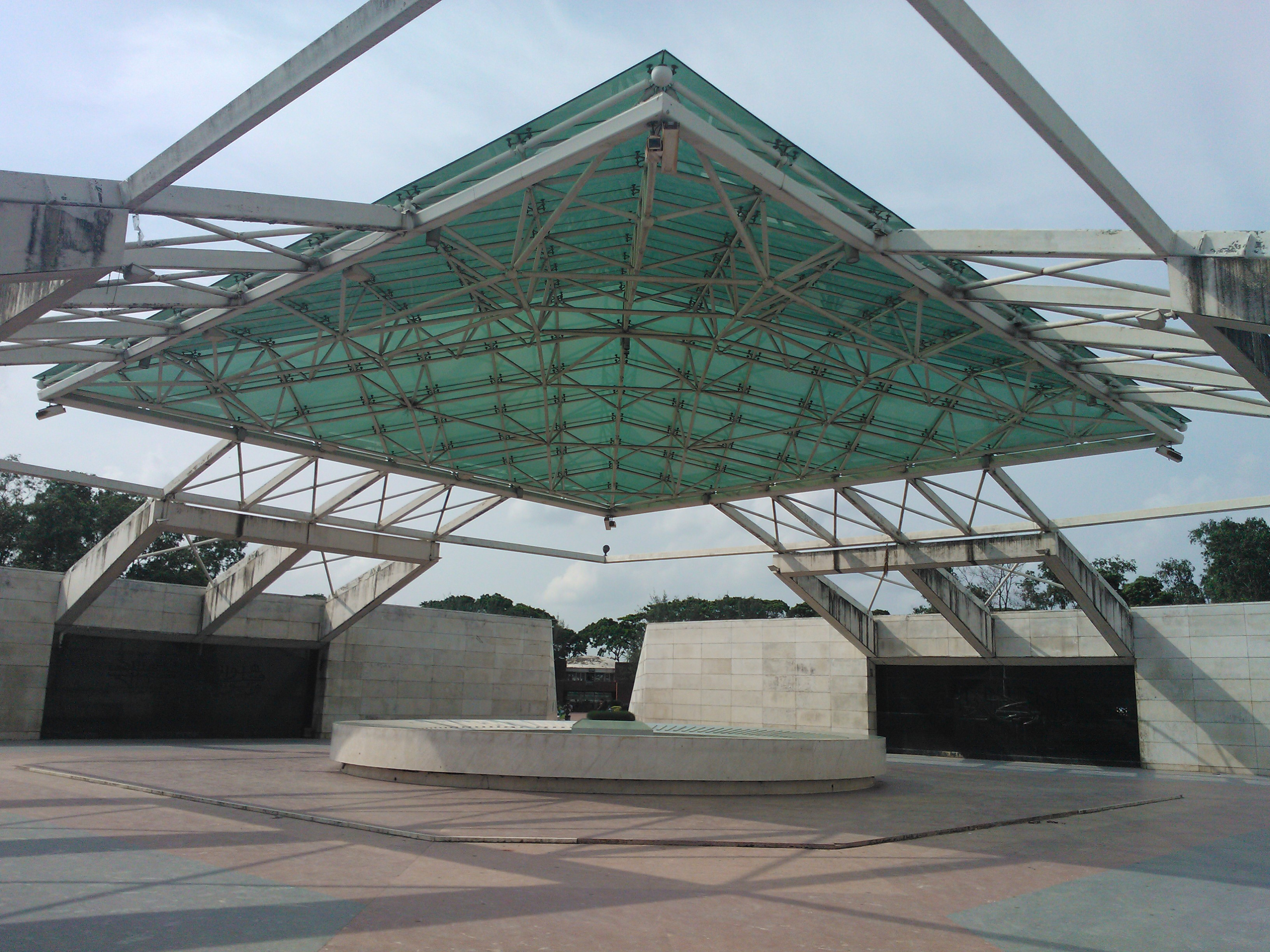 Mausoleum of late Bangladeshi President Ziaur Rahman in Dhaka.